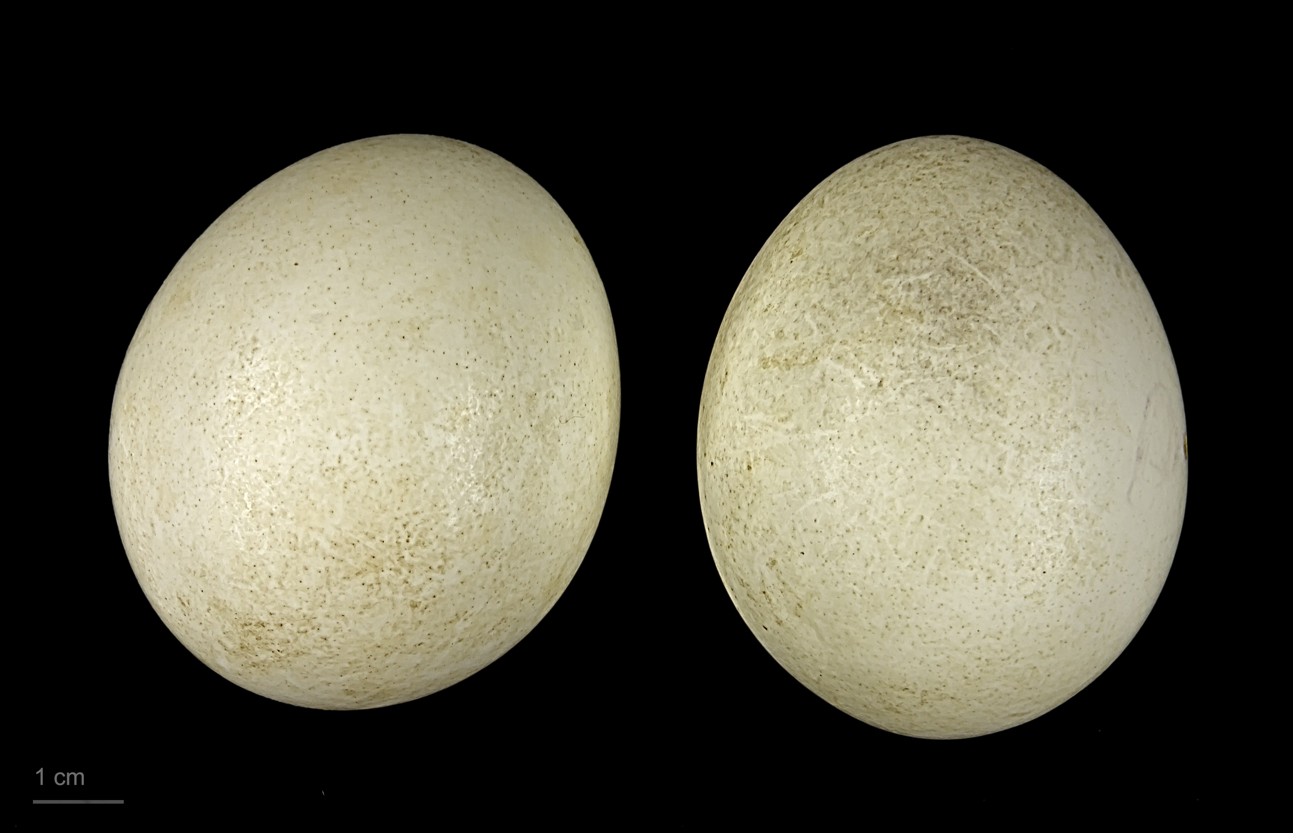 Eggs of hooded merganser Two specimens of the same spawn ; collection of Jacques Perrin de Brichambaut.